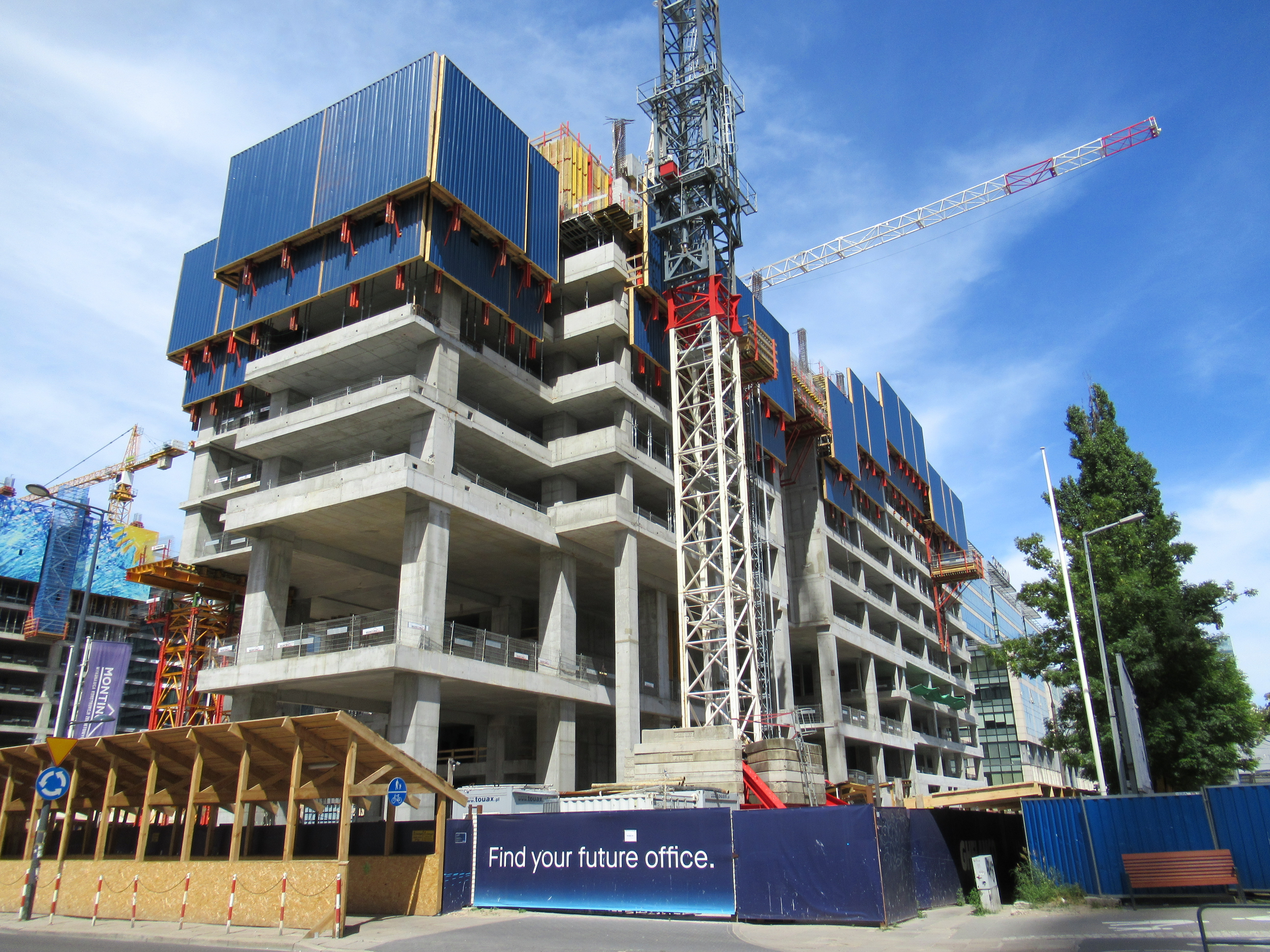 Construction of a skyscraper.